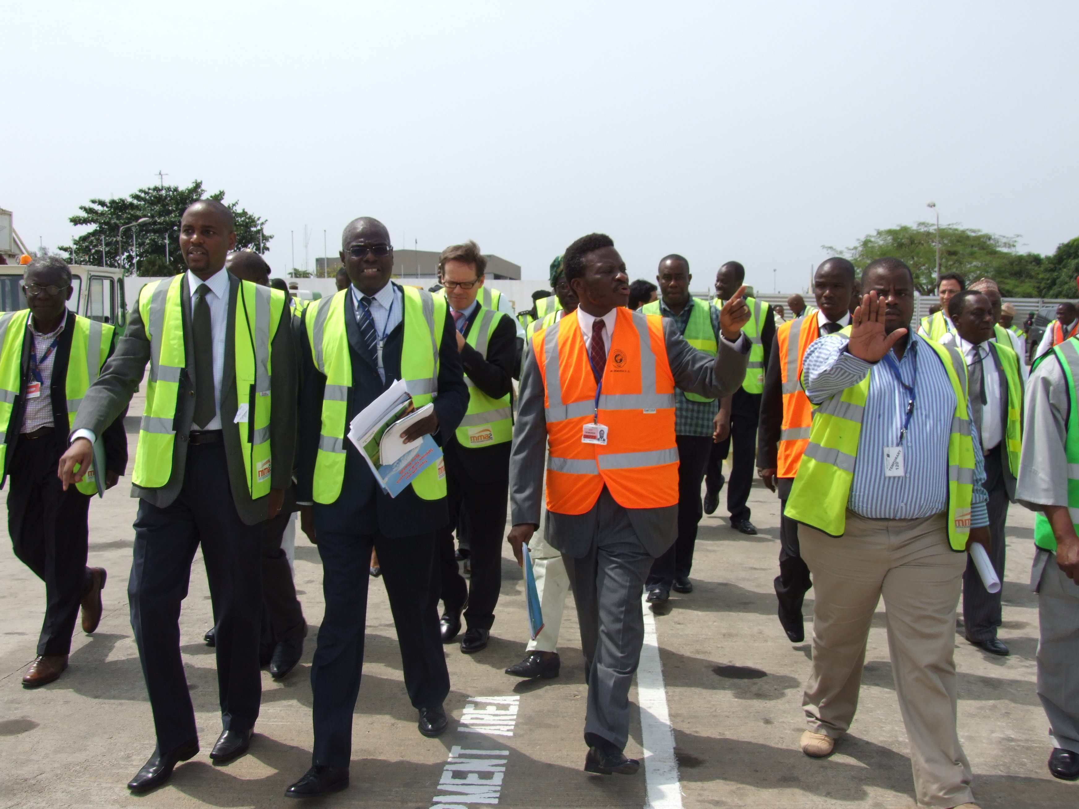 Demuren leading NCAA Team conducting routing Ramp Safety Inspection